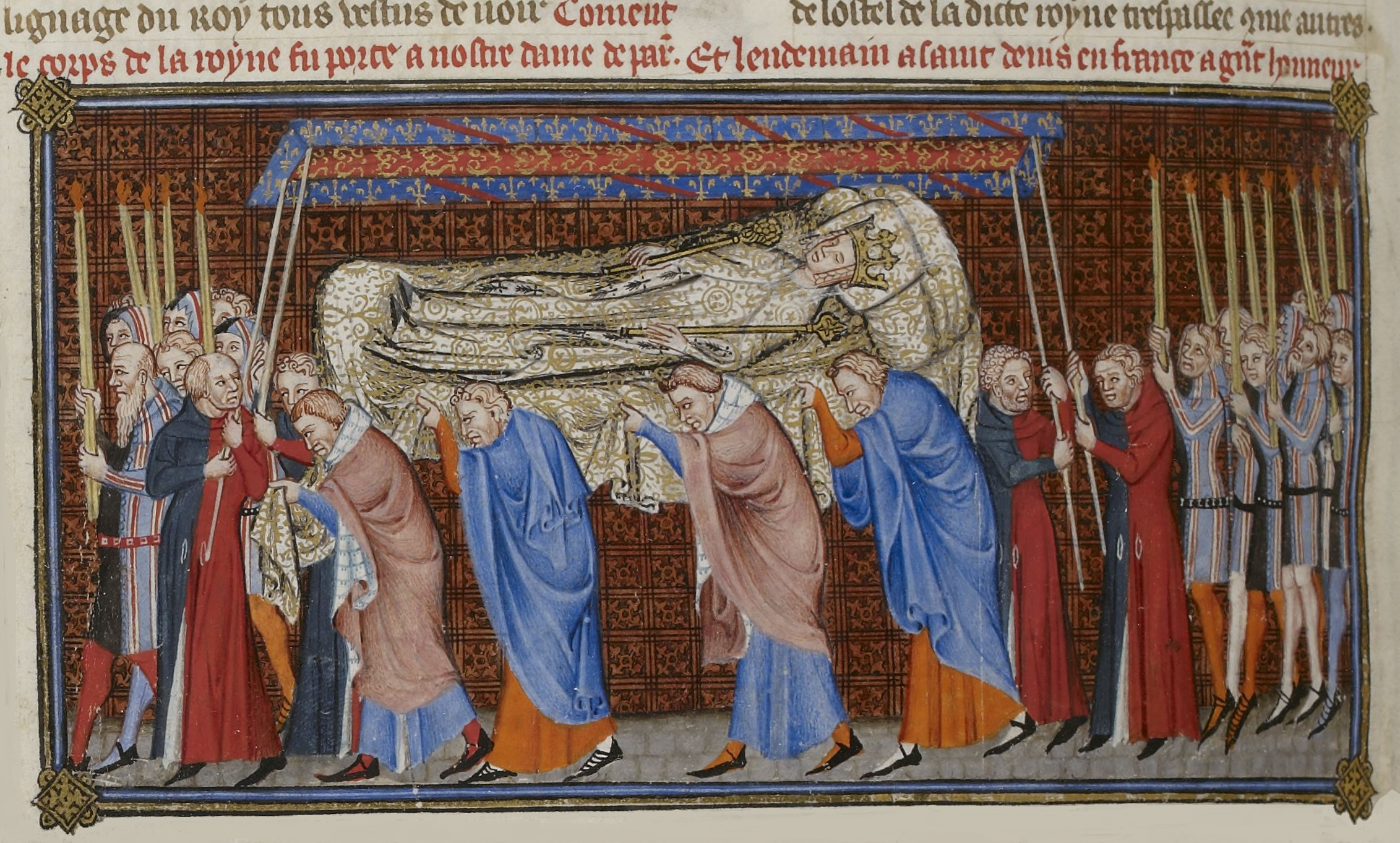 Funeral of Jeanne of Bourbon, wife of Charles V.